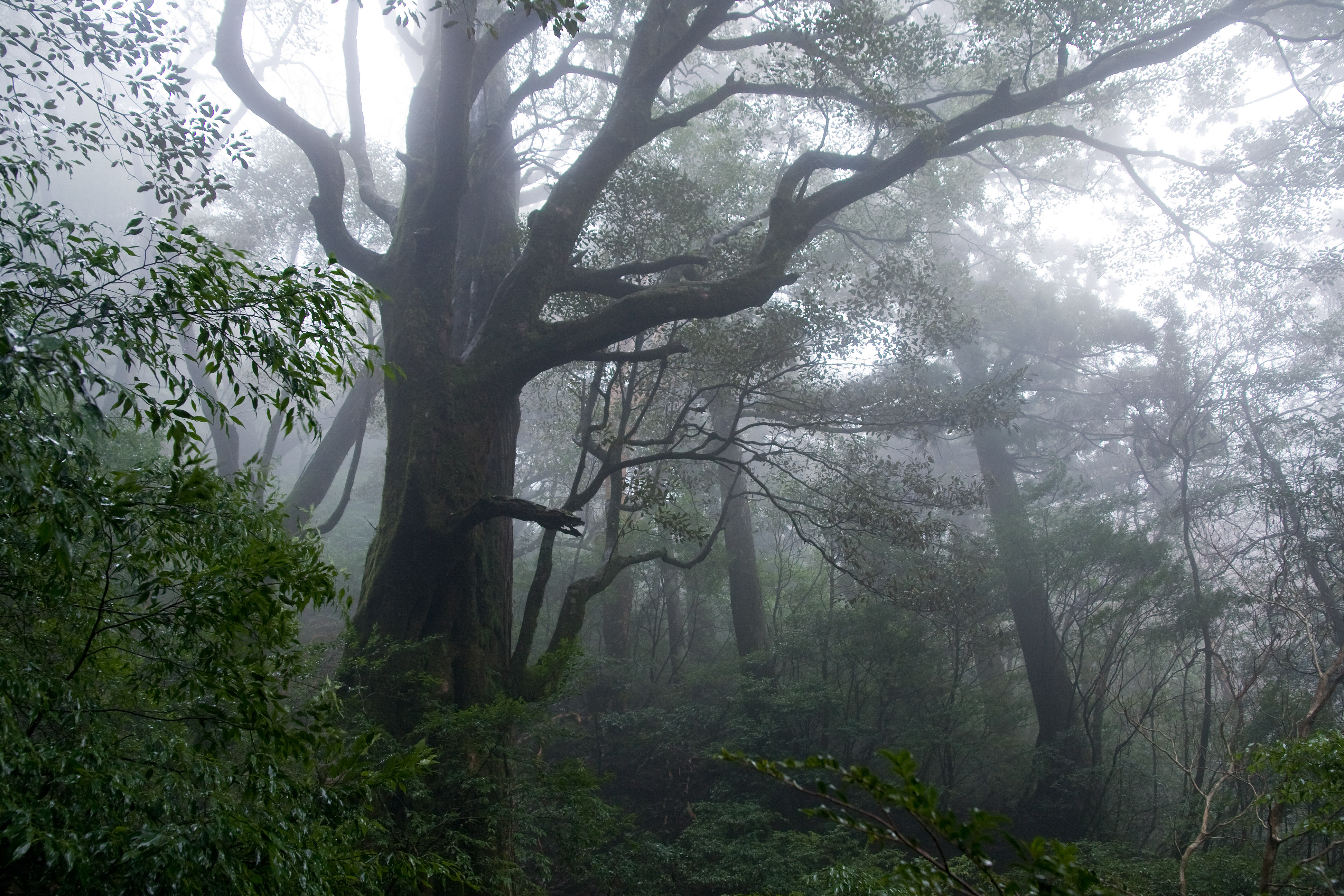 The forest in Yakushima, Kagoshima Pref., Japan.